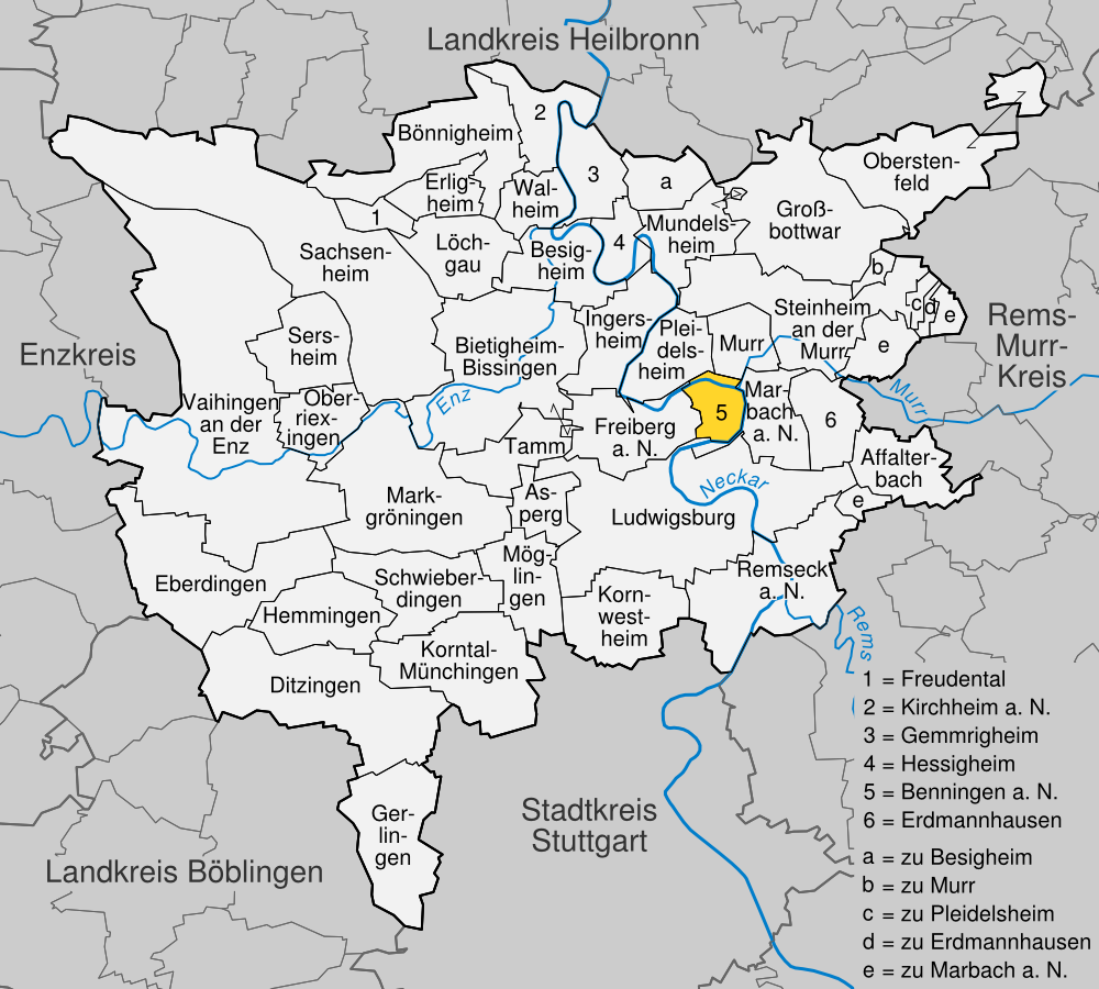 position of Benningen within distict of Ludwigsburg, Baden-Württemberg, Germany